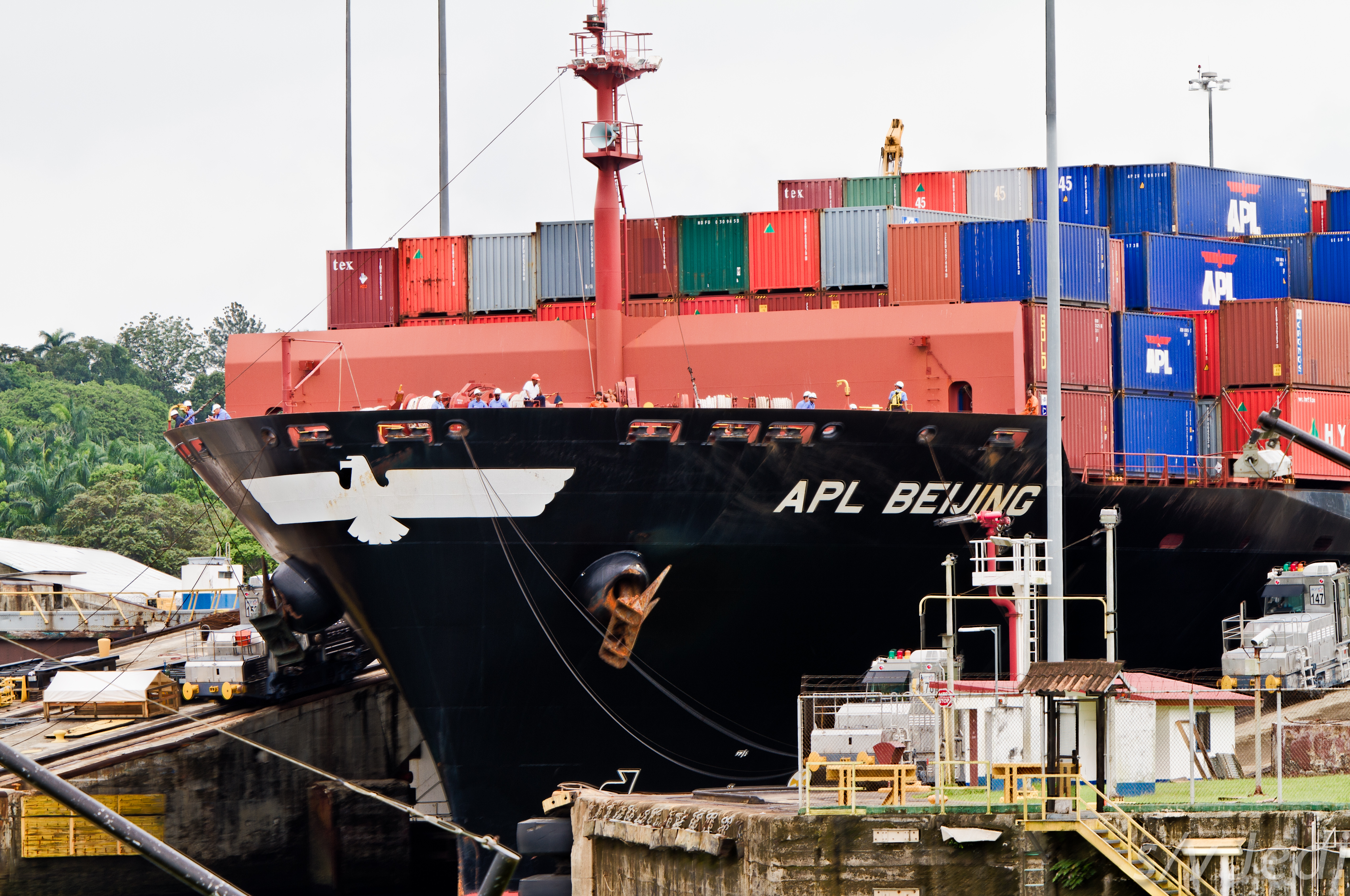 The ships are guided along the locks with locomotives called the "mules". Big Panamax ships require 6 mules, 4 to handle the bow and 2 to handle the stern. Here you can see the bow-mules hauling in their steel cables as the ship exits the locks to sail into the Caribbean.